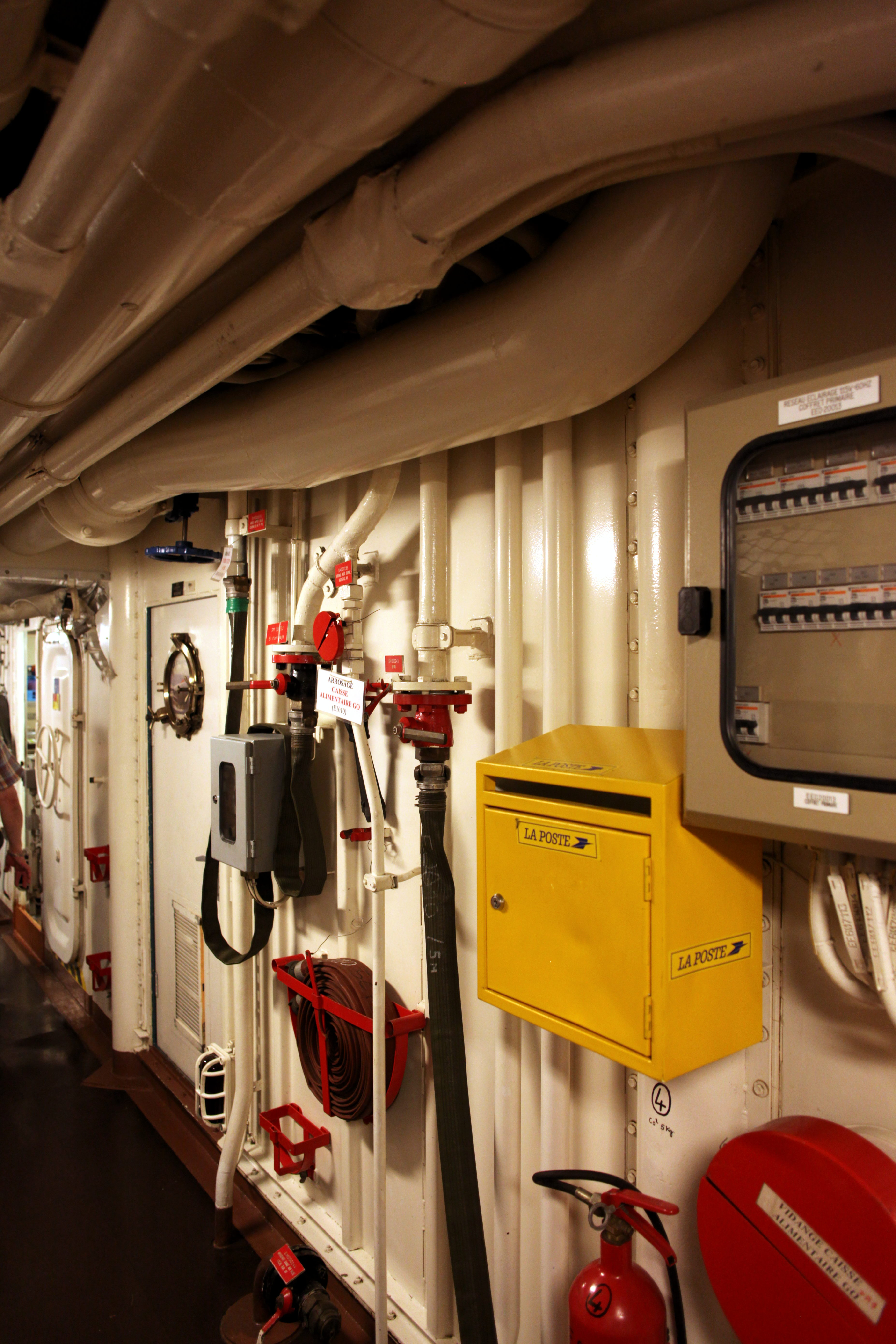 Mailbox on the stealth frigate Surcouf.